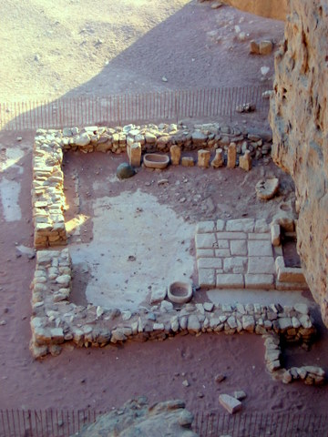 hathor